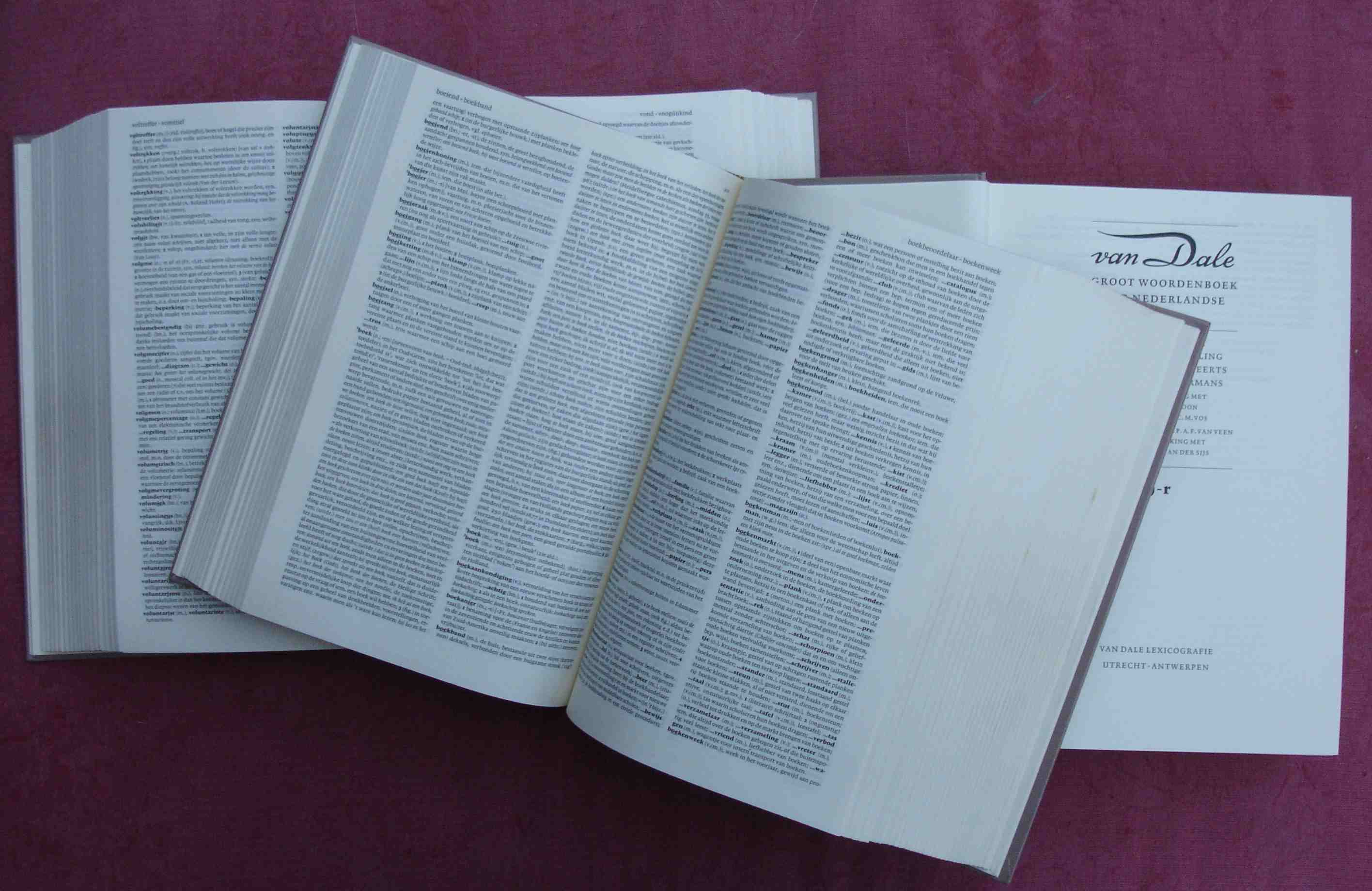 dictionary